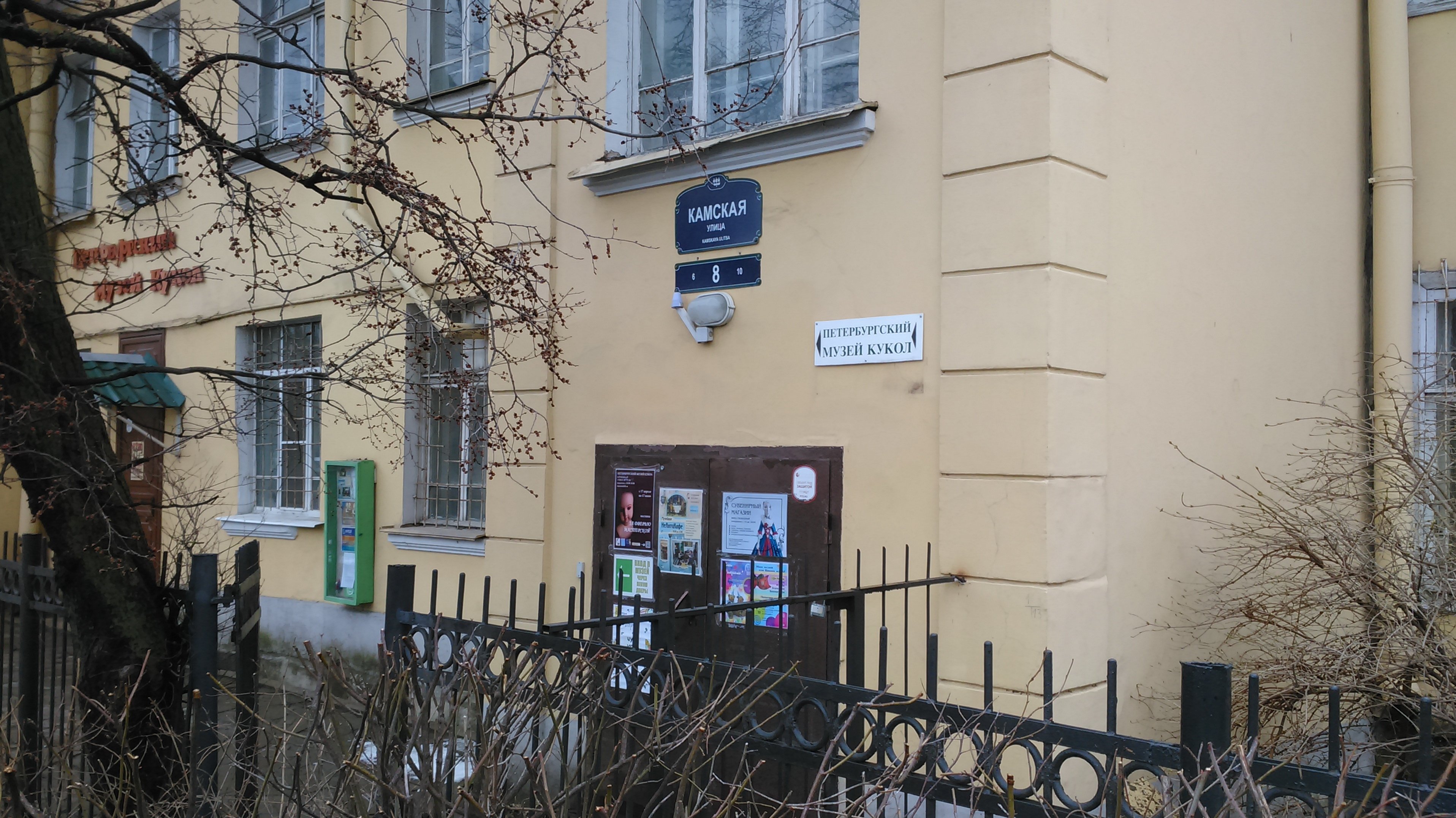 The façade of the Museum of Dolls on Vasilevsky Island in St. Petersburg, Russia.